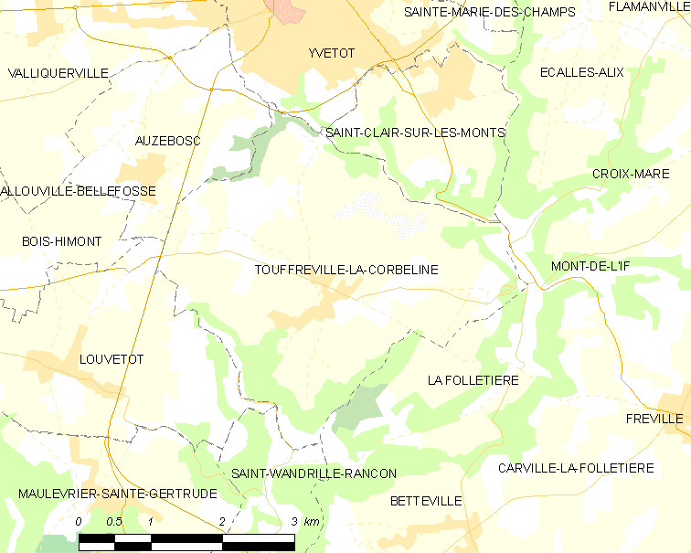 Map of French municipality Touffreville-la-Corbeline